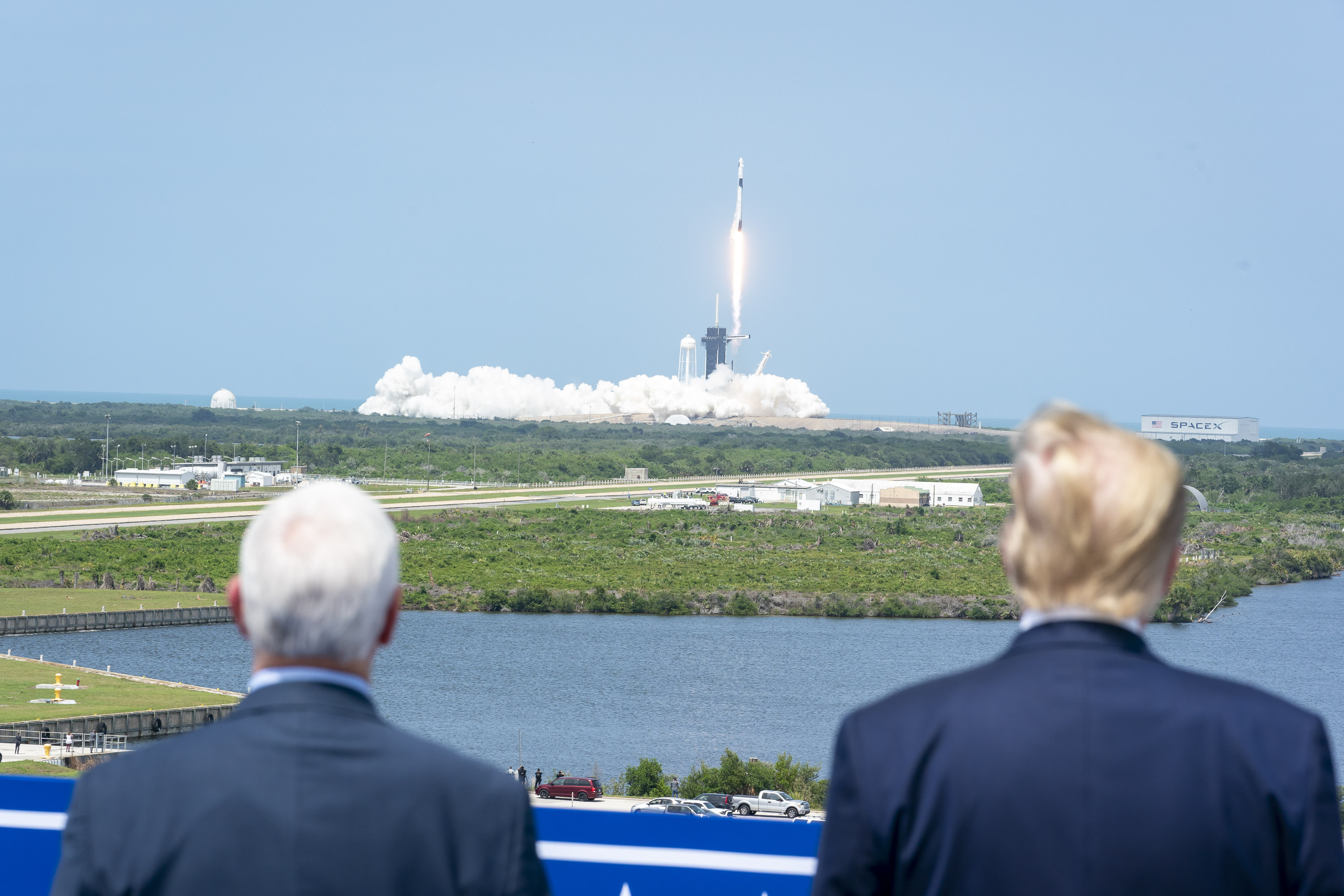 President Donald J. Trump and Vice President Mike Pence watch the SpaceX Demonstration Mission 2 launch Saturday, May 30, 2020, at the Kennedy Space Center Operational Support Building in Cape Canaveral, Fla. (Official White House Photo by Shealah Craighead)